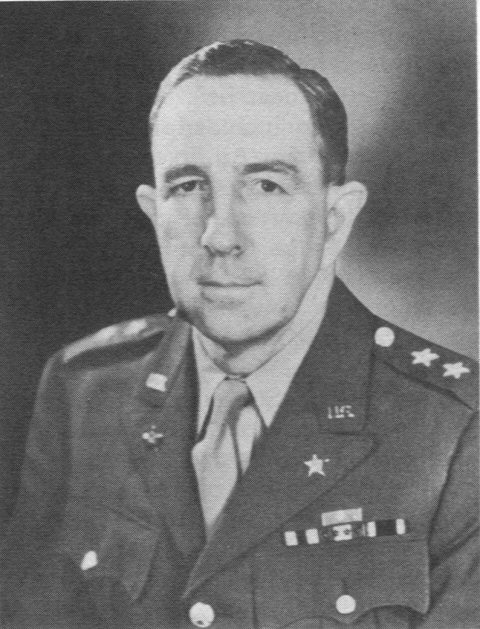 Ray Barker